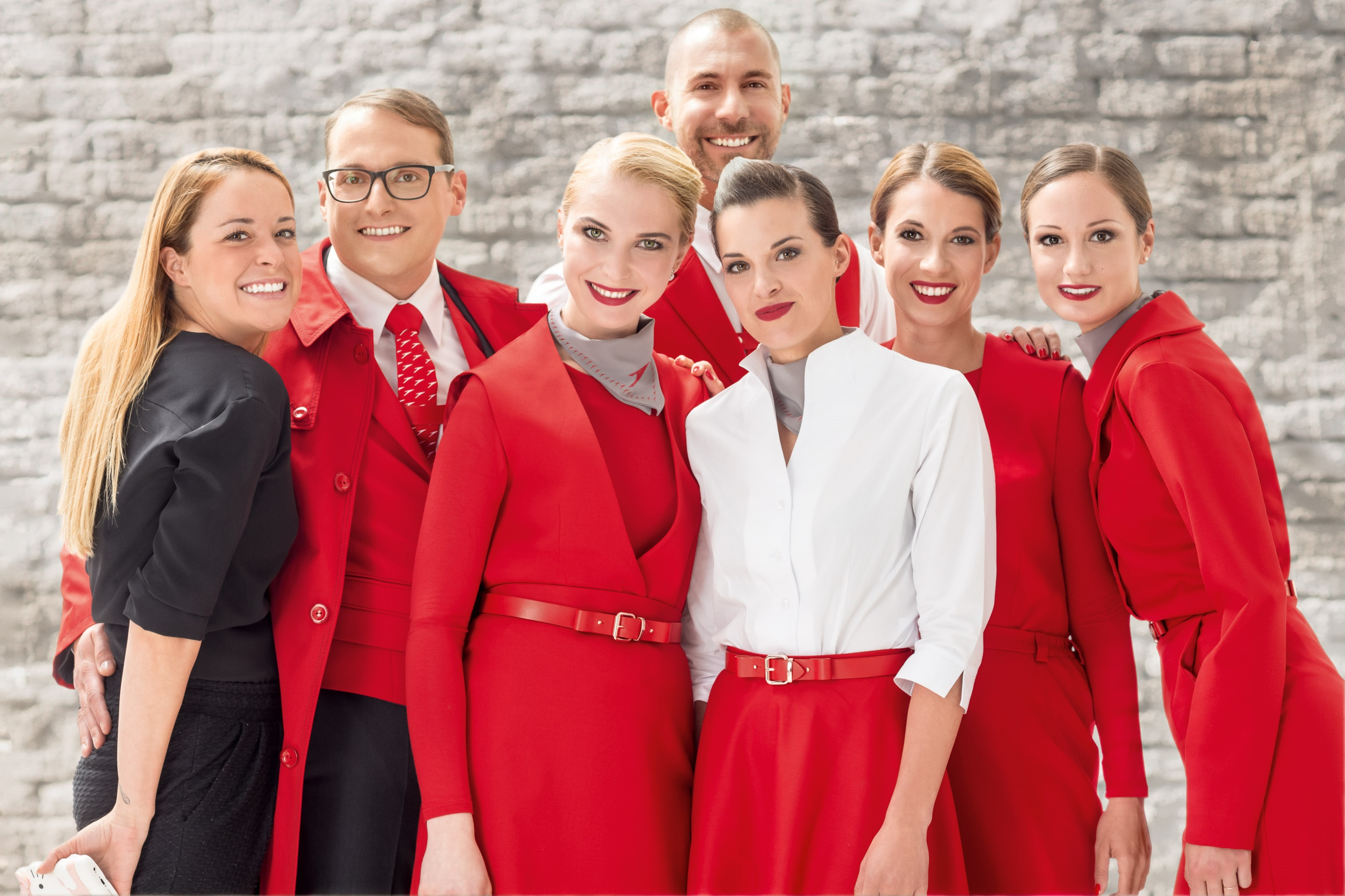 New 2016 uniforms for Austrian Airlines by Marina Hoermanseder